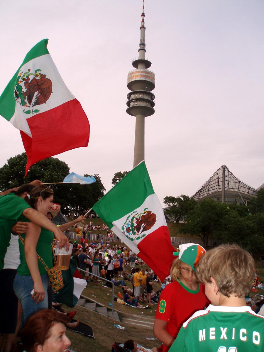 Mexico fans at the Olympia Park Fan Fest in Munich, 16/6/06.